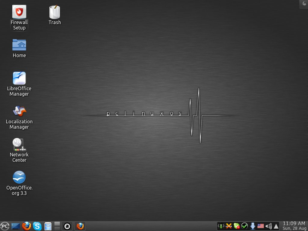 Screenshot of PcLinuxOS 2011.6 taken in August [modified]